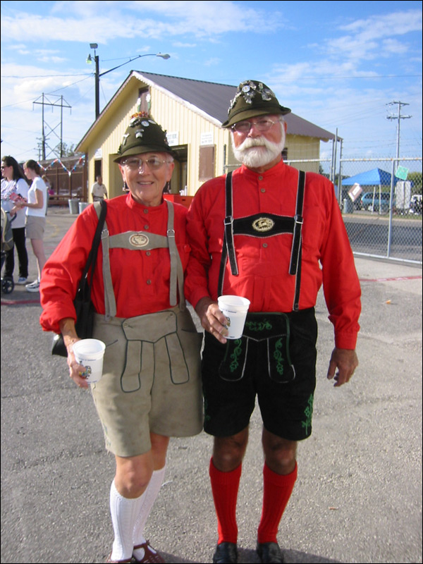 A couple attending the New Braunfels Wurstfest, clad in lederhosen, red shirts and "German" hats.